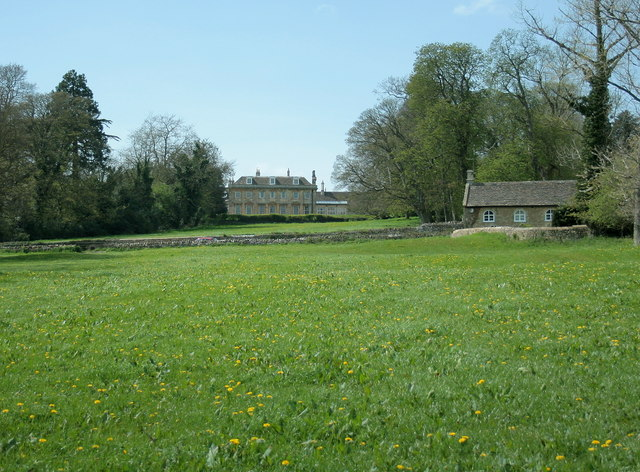 Monkton Farleigh Manor House Dating from the early to mid 18th Century with further work around 1870 the House stands on the site of a Cluniac priory founded 1125 and is at the top end of an avenue of trees extending about 3/4 mile east from the house. Information from